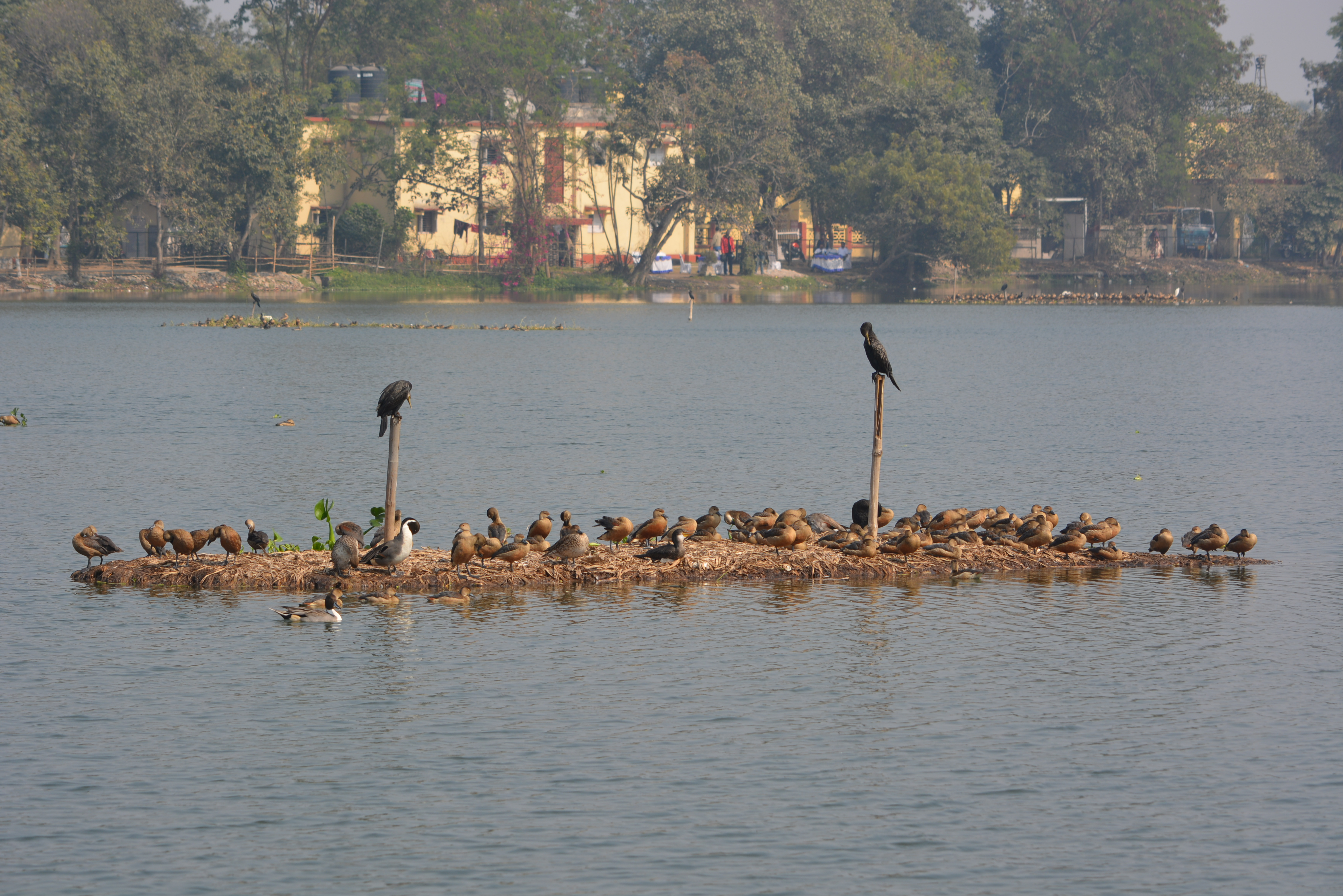 Two migratory birds resting in two tall bamboos in an island in Santragachi Lake.